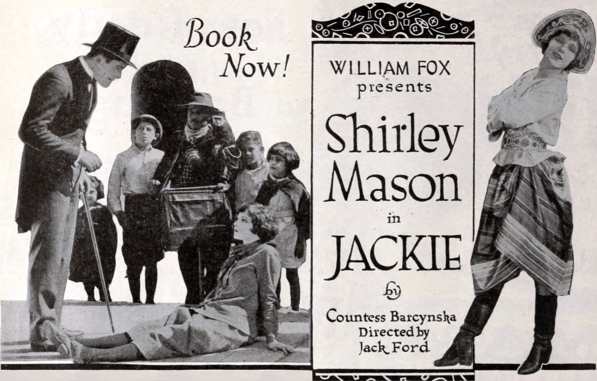 Advertisement for the American romantic drama film Jackie (1921) with William Scott and Shirley Mason, on page 22 of the December 31, 1921 Exhibitors Herald.